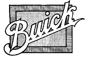 Buick 1913 logo